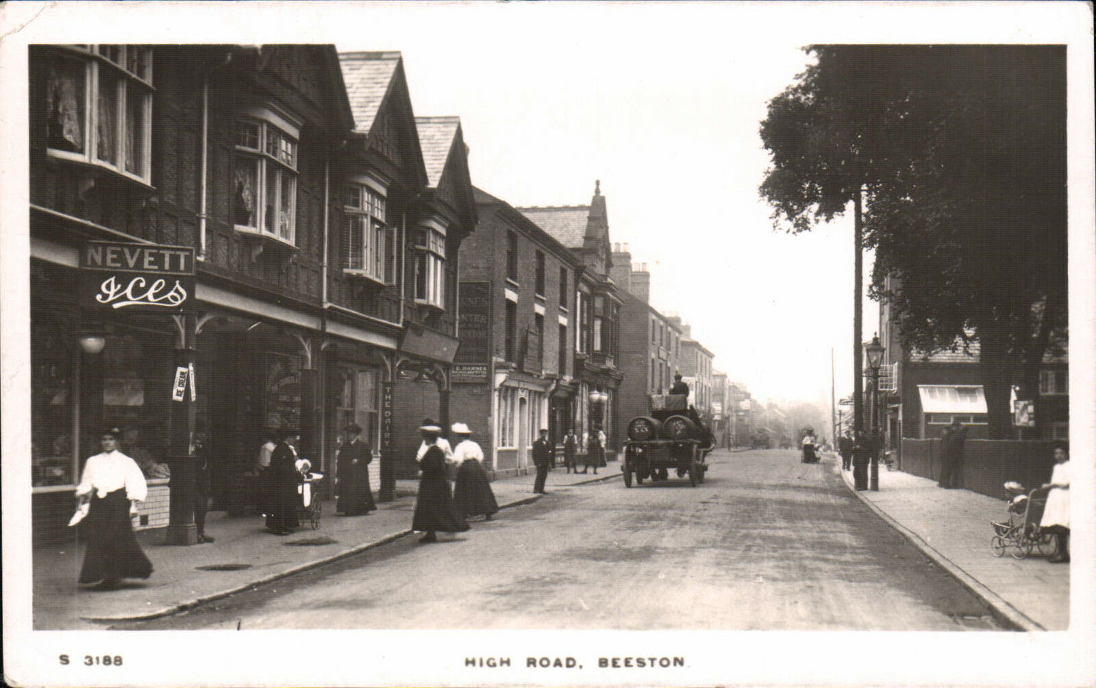 WHS Kingsway postcard S3188. High Road, Beeston ca. 1912.